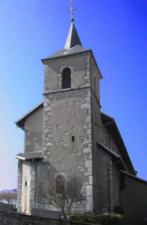 The bell-tower of the church of ARBIN in Savoy (France)